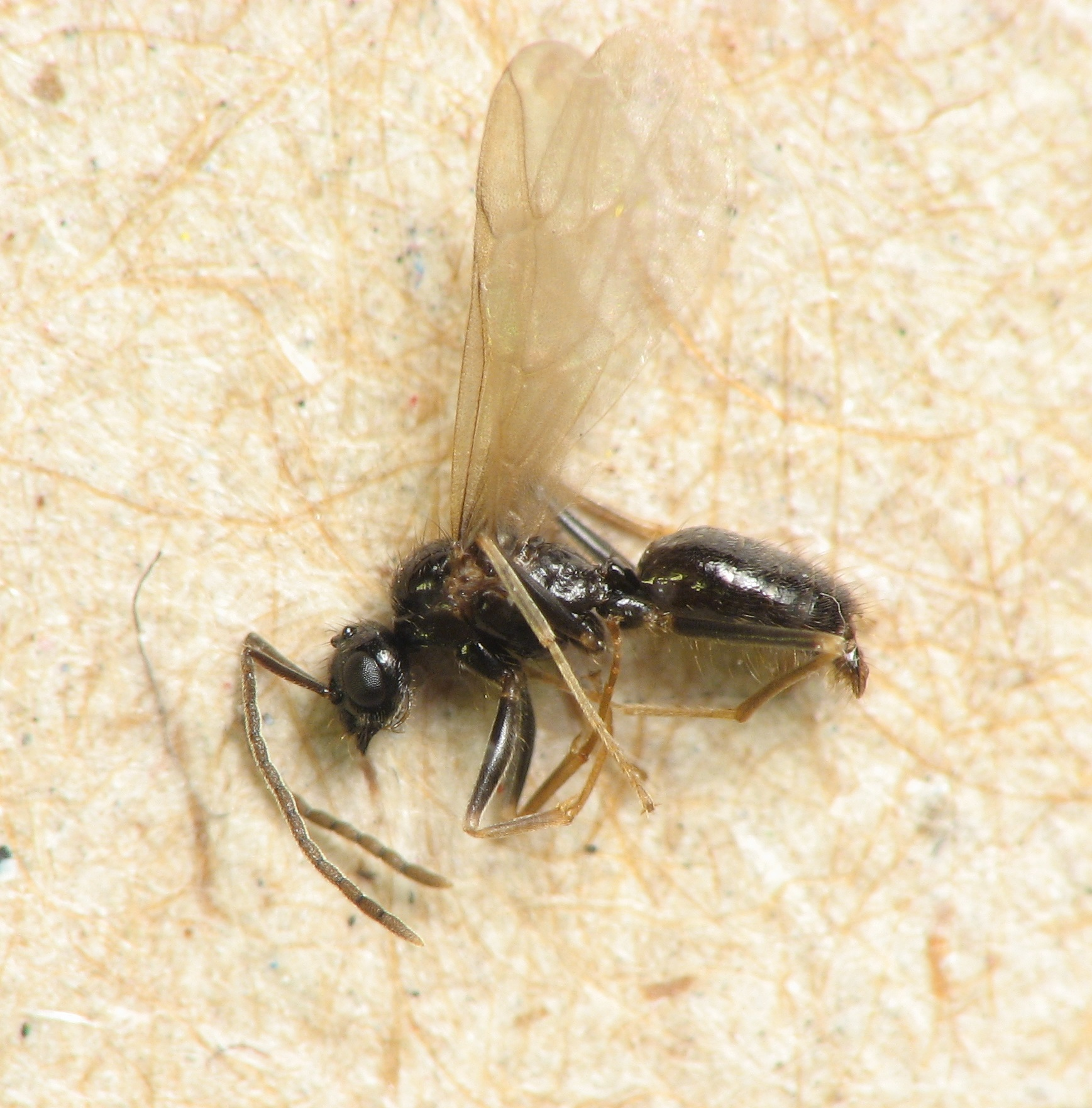 False Honey Ant, Prenolepis imparis, male. Size: + - 3 mm. Bowman's Hill Wildflower preserve, Bucks County, Pennsylvania, USA.